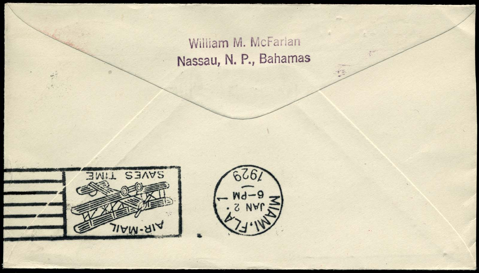 Back of cover from the Bahamas, 1929